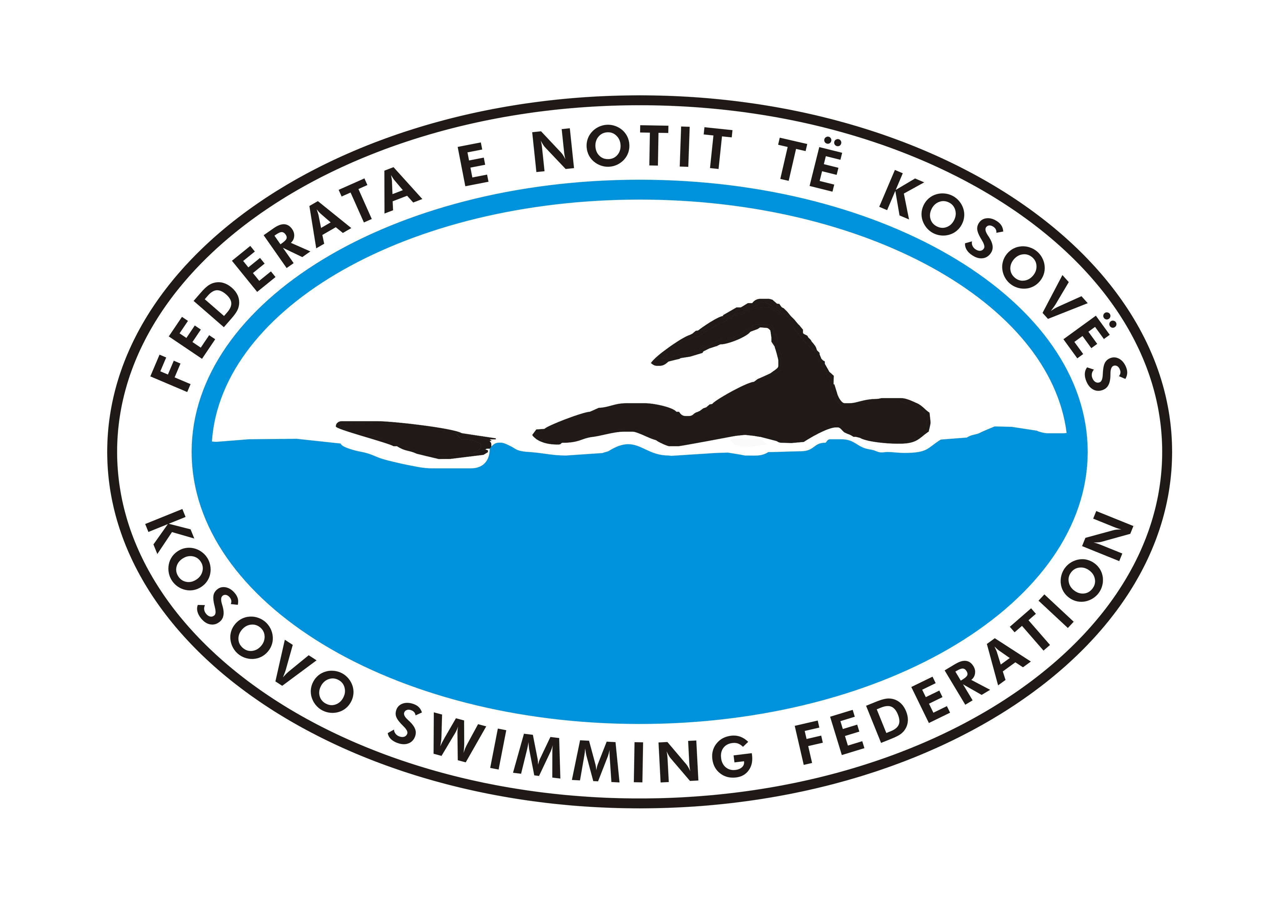 The official logo of the Kosovo Swimming Federation, FINA member since 17 February 2015. Legal use; source: National Olympic Committee of Kosovo